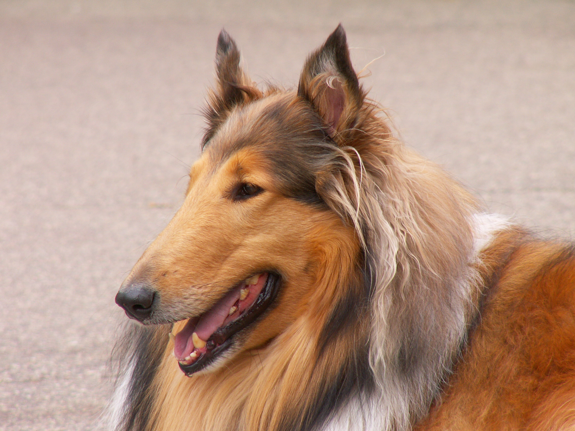 A sable Rough Collie at the Boston Public Gardens.